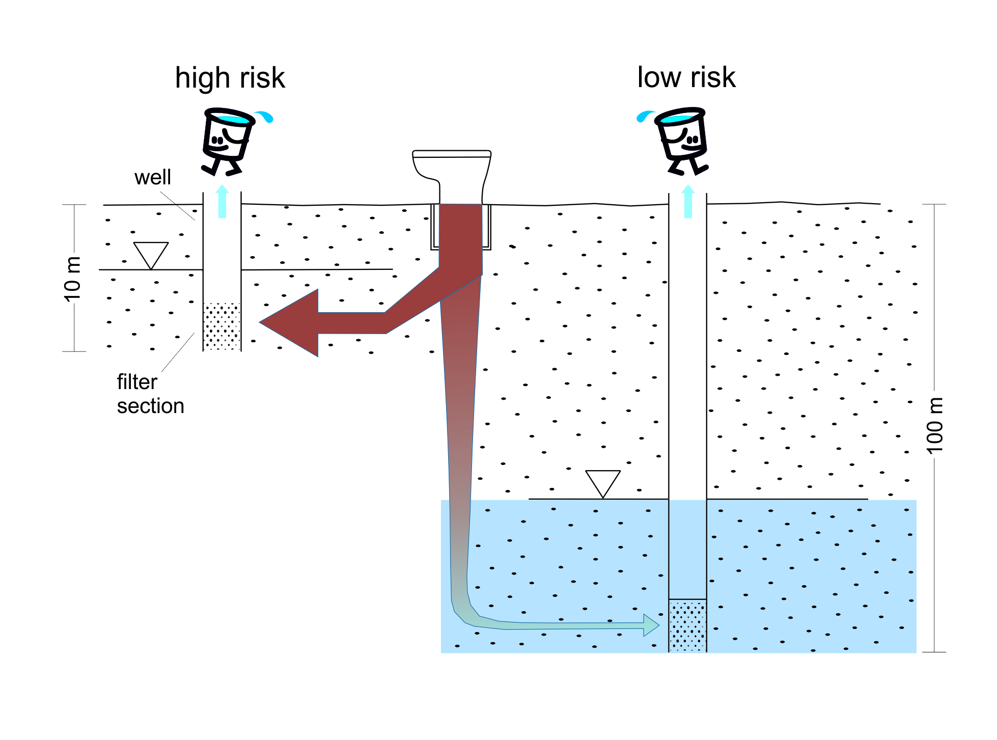 Safer siting of sanitation systems - schematic: Lower risk with greater depth